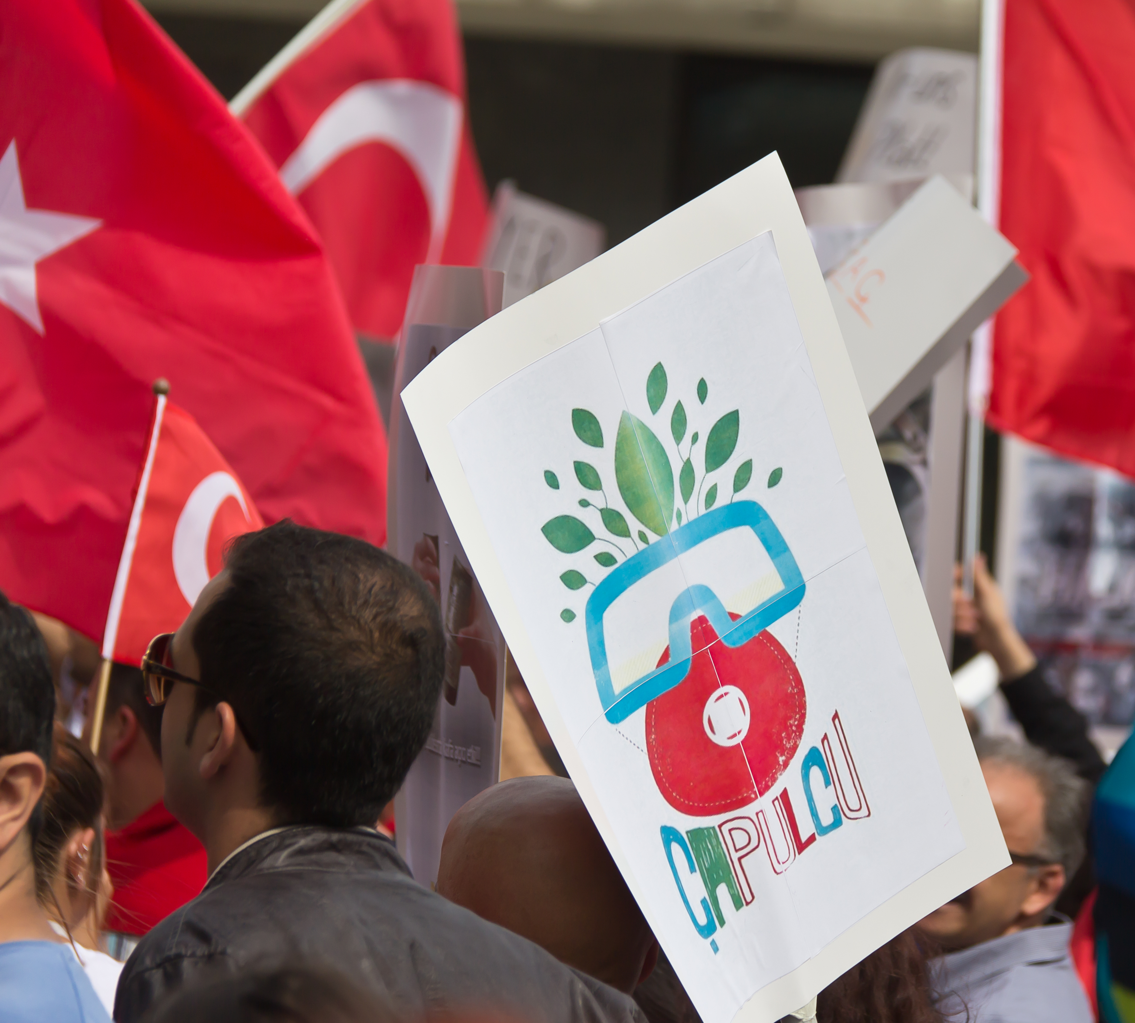 Taksim Gezi Park protests in Cologne